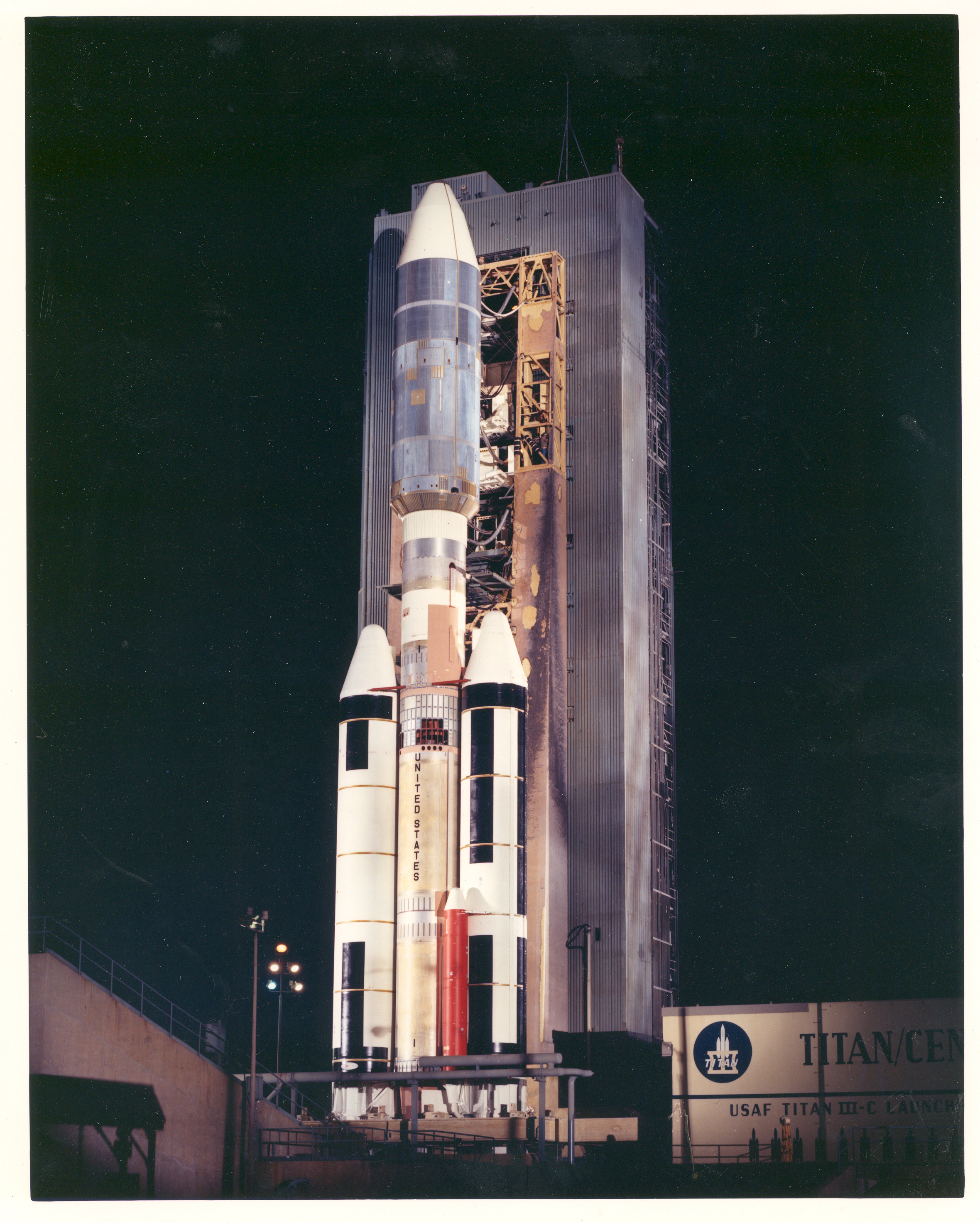 The Titan booster is a two-stage liquid-fueled rocket, with two additional large, solid-propellant rockets attached. It is a member of the Titan family that was used in NASA's Gemini program. The Centaur is a liquid oxygen- liquid hydrogen, high- energy upper stage used on Surveyor flights to the Moon and on Mariner flights to Mars. At liftoff, the solid rockets provide 9.61 million newtons (2.16 million pounds) of thrust. When the solids burn out, the first stage of the Titan booster ignites, and followed by the second-stage ignition as the first stage shuts down. The Centaur ignites on second stage shutdown to inject the spacecraft into orbit. Then after a 30-minute coast around the Earth into position for re-start, the Centaur re-ignites to propel Viking on its Mars trajectory. Once this maneuver is completed the spacecraft separates from the Centaur, which subsequently is deflected away from the flight path to prevent its impact on the surface of Mars. Shortly after separating from the Centaur, the orbiter portion of the combined orbiter-lander spacecraft orients and stabilizes the spacecraft by using the Sun and a very bright star in the southern sky, Canopus, for celestial reference.